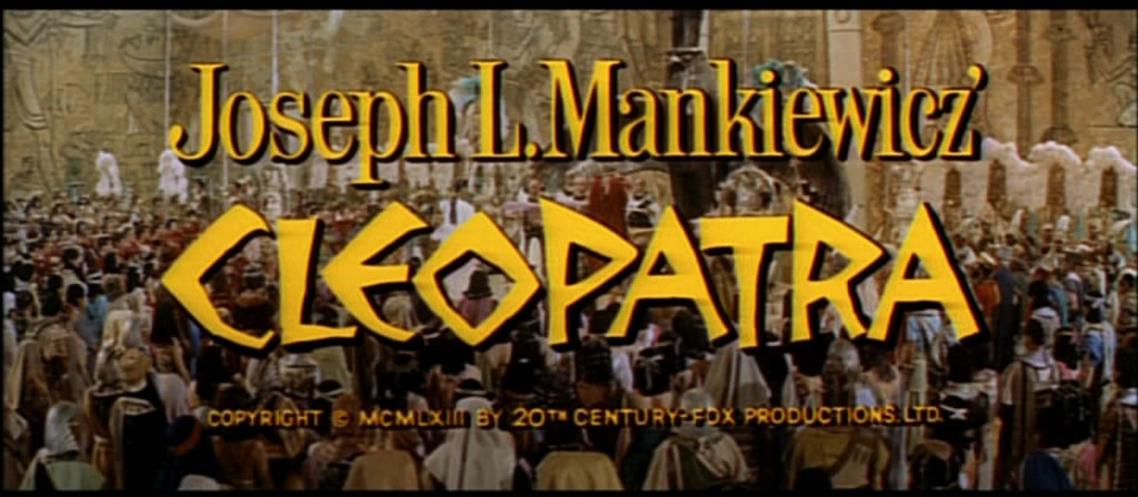 Screenshot from the trailer for the film Cleopatra.